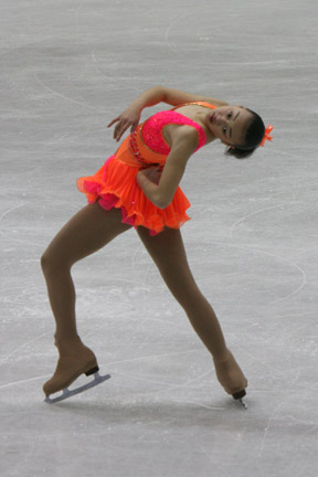 2008 World Junior Figure Skating Championships - Yuki Nishino